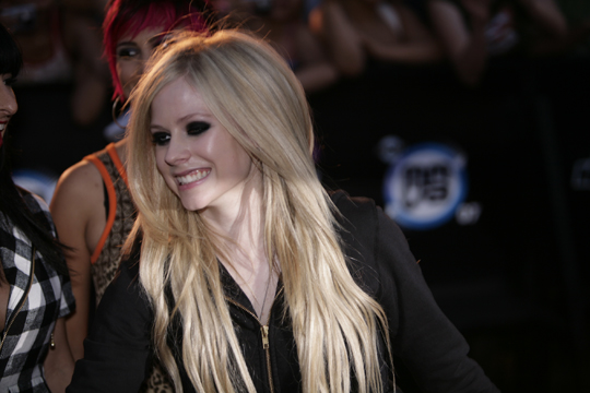 Avril Lavigne at the 2007 MuchMusic Video Awards red carpet.